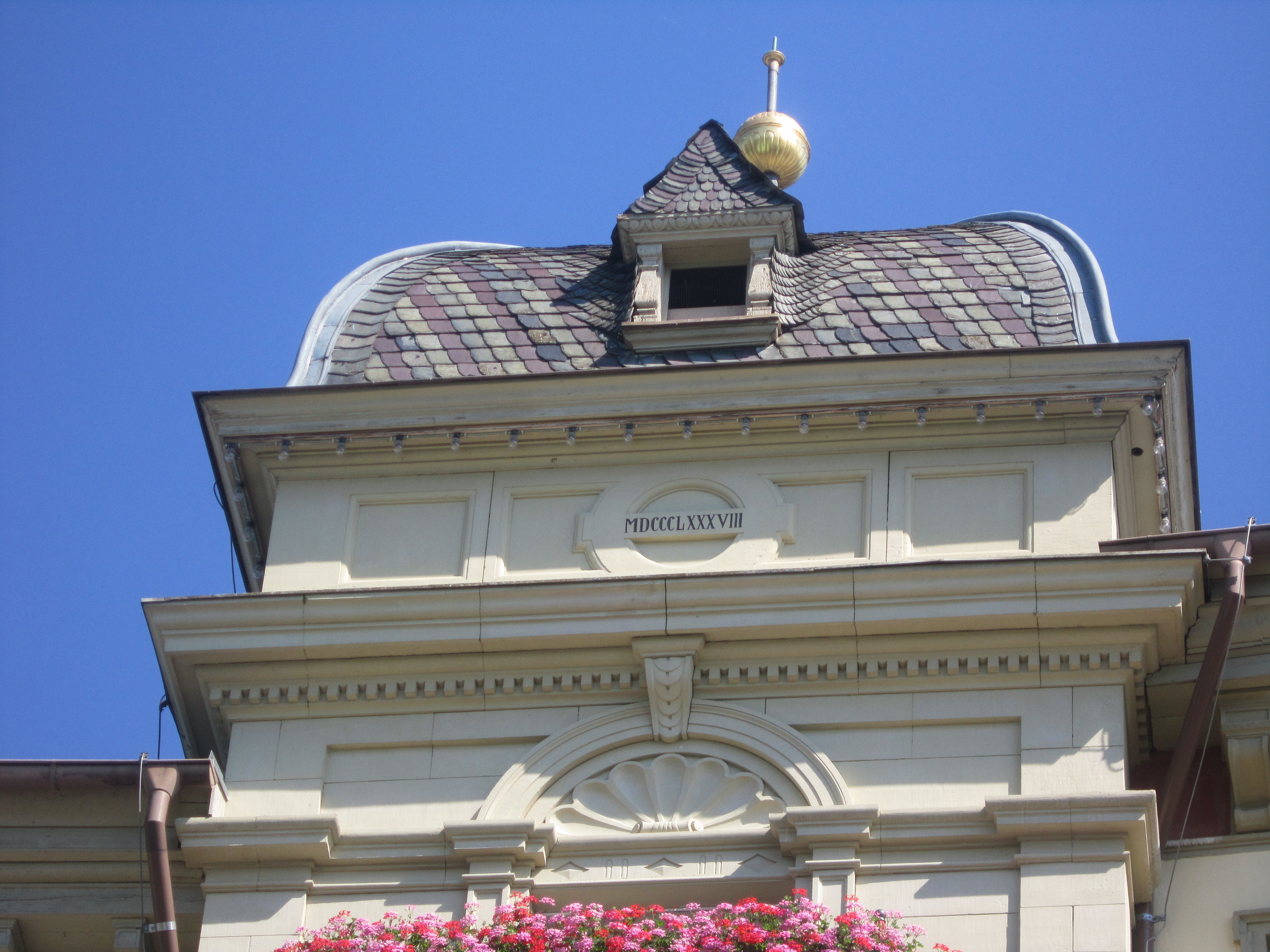 Plate on the tower of the „Kaiserhof Victoria“, a hotel in Bad Kissingen, a quarter of the German spa town of Bad Kissingen in Lower Franconia. The year 1888 given on the plate is the year when the tower was built connecting the buildings of the addresses „Am Kurgarten 5“ and „Am Kurgarten 5“ establishing the „Kaiserhof Victoria“.